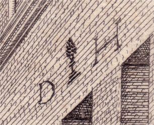 Monogramm -detail - Etching “Mary and St. Anne (St. Elisabeth ?) “ from Daniel Hopfer